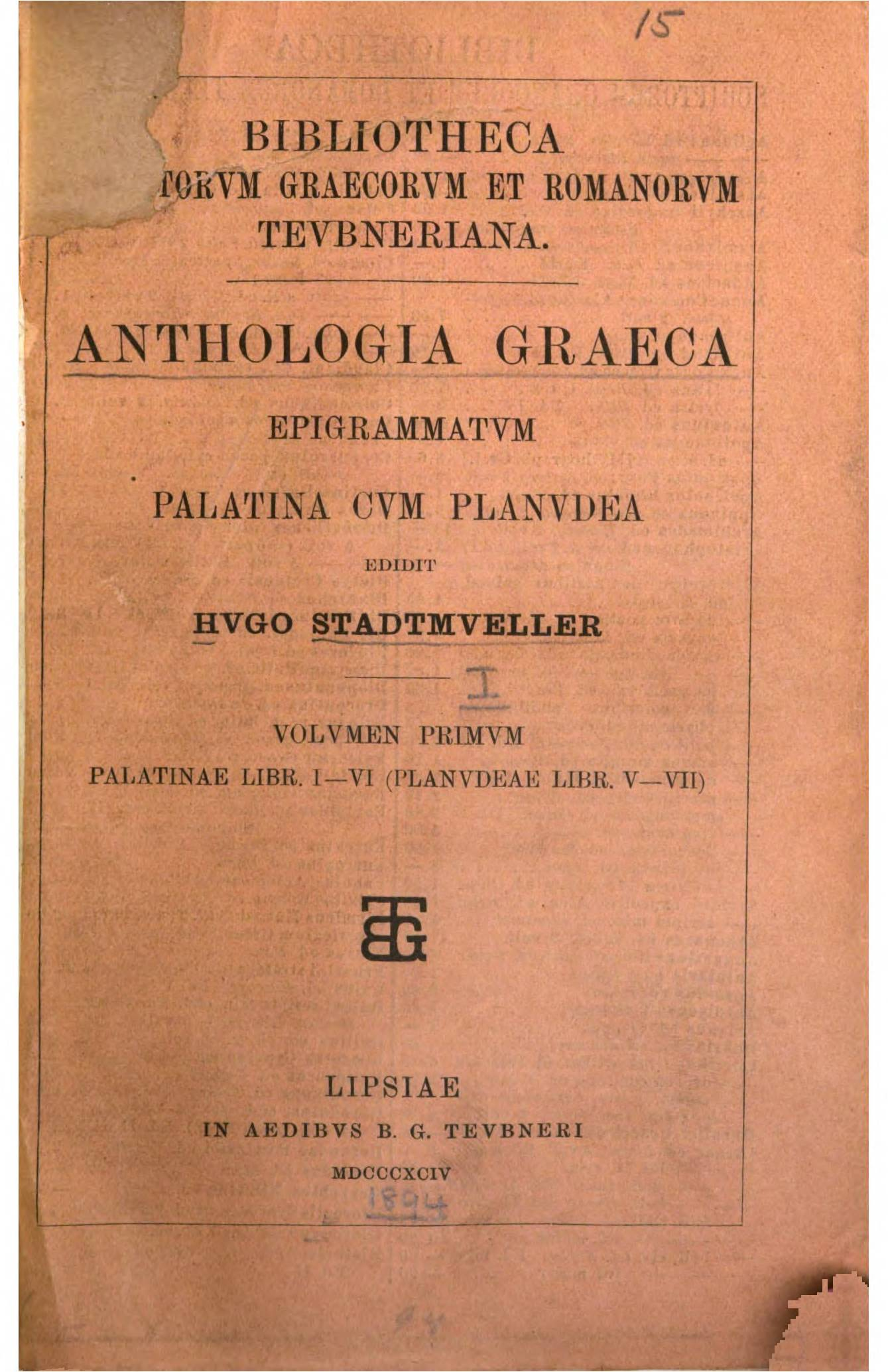 First page of Anthologia graeca, epigrammatum Palatina cum Planudea, 1894. Lipsiae: in aedibus B.G. Teubneri, Ed. Hugo Stadtmüller